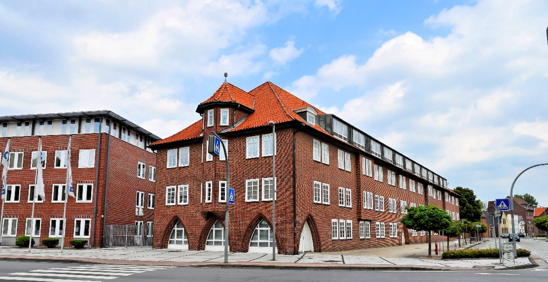 Rathaus Cuxhaven 2015